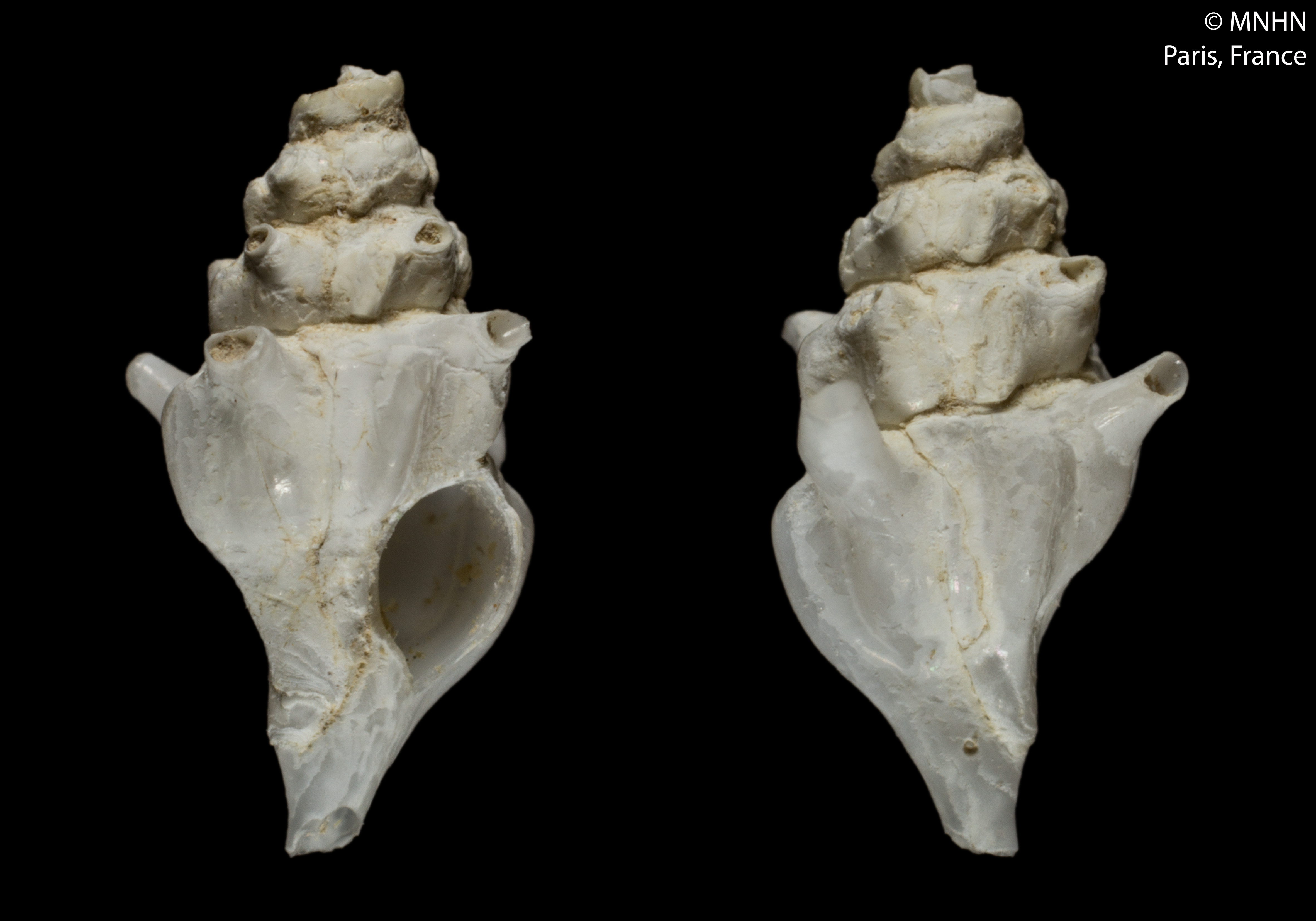 PRESERVED_SPECIMEN; Laevityphis libos Houart, 2017; Type status: HOLOTYPE; Identified by: N/A; Individual count: 1; Event date: 2014-08-30T00:00:00Z